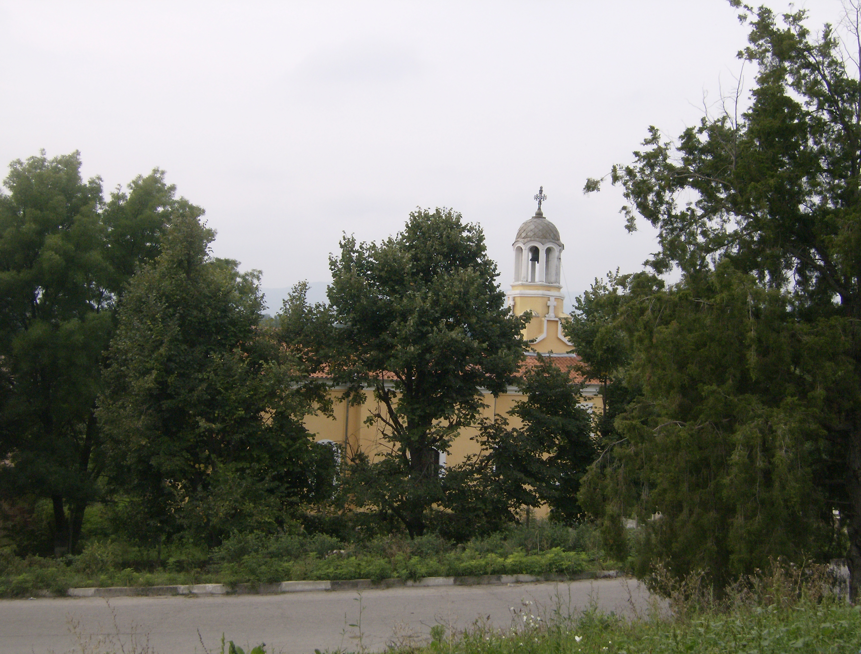 Zlatar_vilage